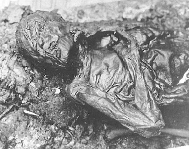 Bog body known as the Dröbnitz Girl, found in 1939 near Dröbnitz in former East Prussia, now Drwęck in Poland, dating to around 650 BCE. The corpse was destroyed during WWII.